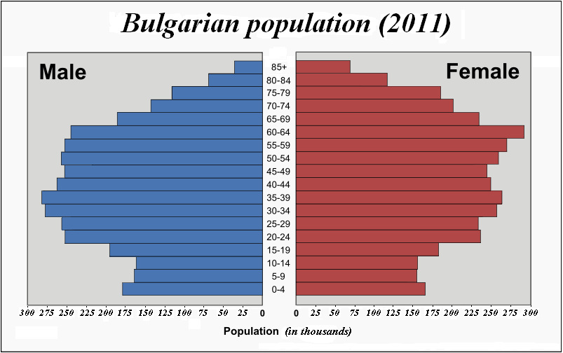 Population pyramid of Bulgaria